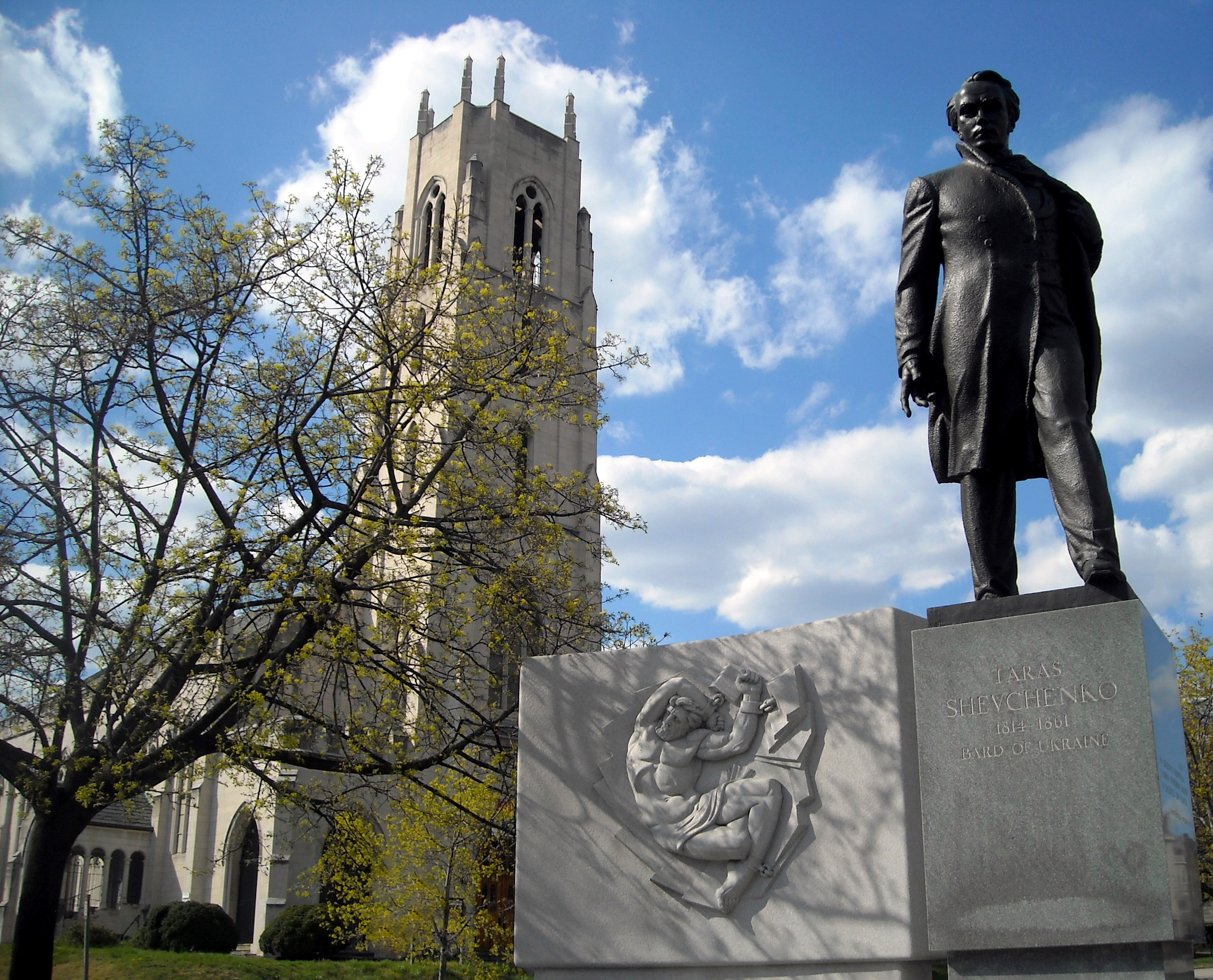 The Taras Shevchenko Memorial, located near the intersection of 22nd and P Streets, NW, in the Dupont Circle neighborhood of Washington, D.C. The statue was sculpted by Leo Mol, and the stonework was created by the Jones Brothers Company. A relief depicting Prometheus is located beside the statue. The memorial was authorized by Congress on September 13, 1960, and dedicated on June 27, 1964. It is administered by the National Park Service, a federal agency of the United States Department of the Interior. The Church of the Pilgrims, located at 2201 P Street, NW, is visible in the background. Built in 1928, the church is an example of Gothic Revival architecture.